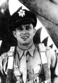 Albert Baumler from [1]